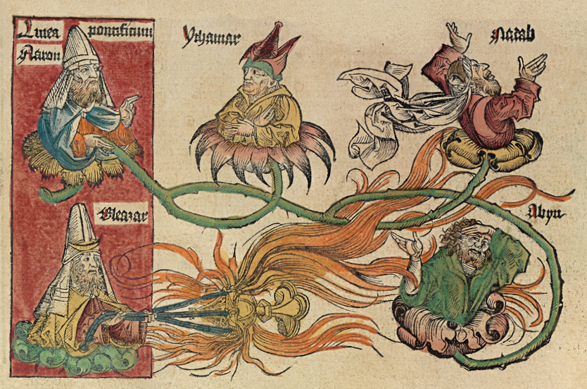 Woodcut from the Nuremberg Chronicle